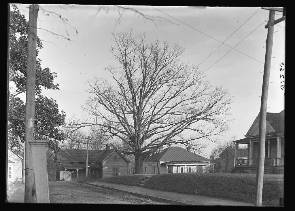 Houses, street and large white oak, Quercus alba. The only tree in the world that owns itself. also which is the Athens Historical Society. 1910. Photo by Huron H. Smith. Location: Athens, Georgia, U.S.A., North America Original material: 5x7 inch glass negative Digital Identifier: CSB31263 Learn more about The Field Museum's